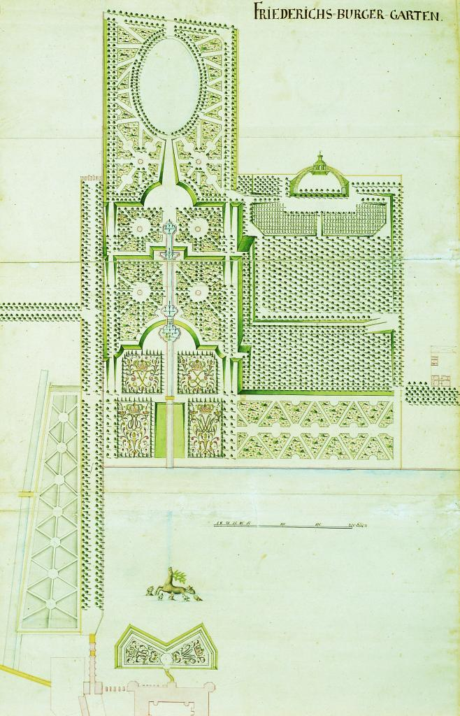 Plan for the Frederiksborg gardens. The Danish Royal Library.